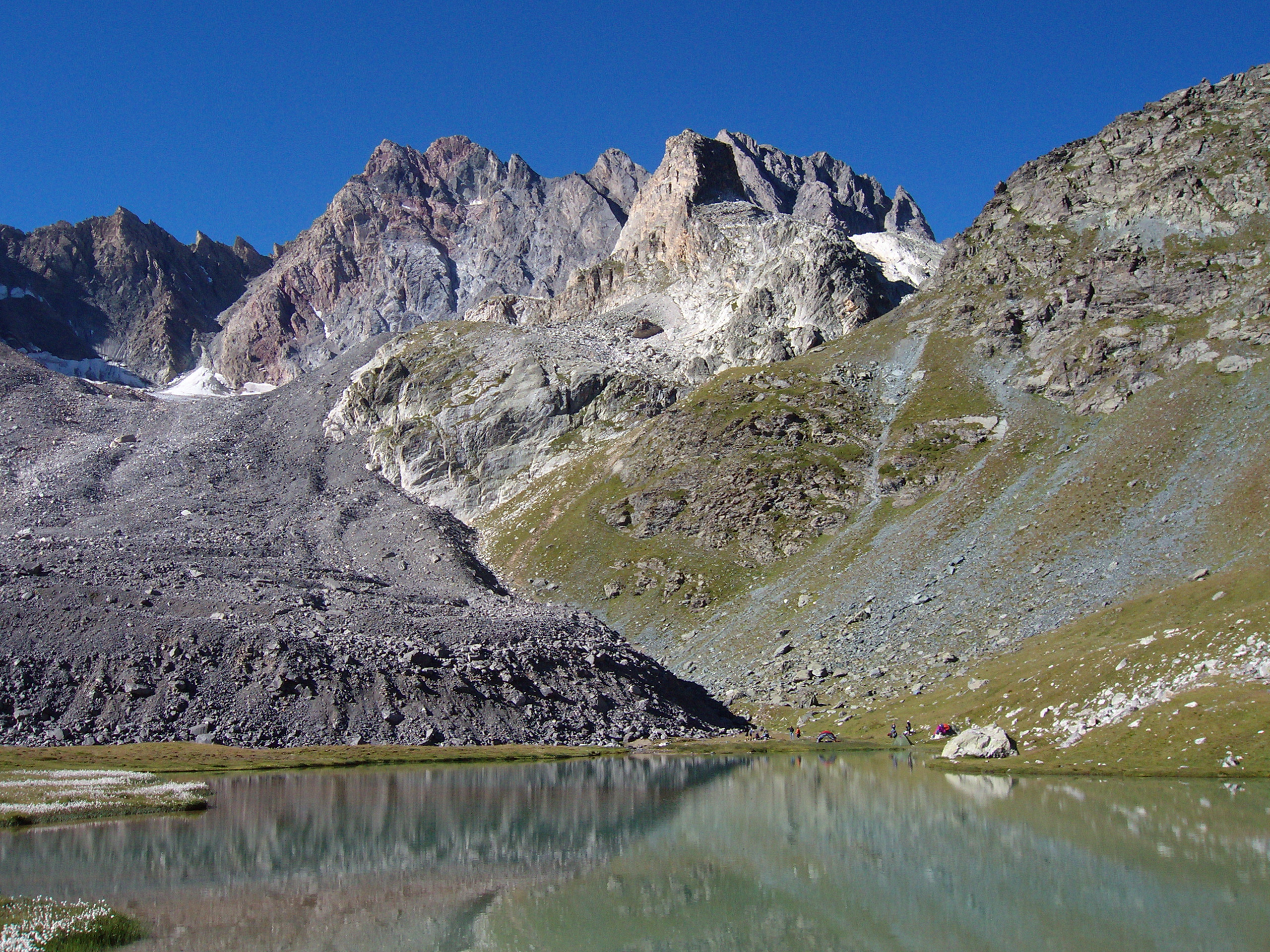 Aiguille du Chambeyron with Marinet glacier and Marinet lake